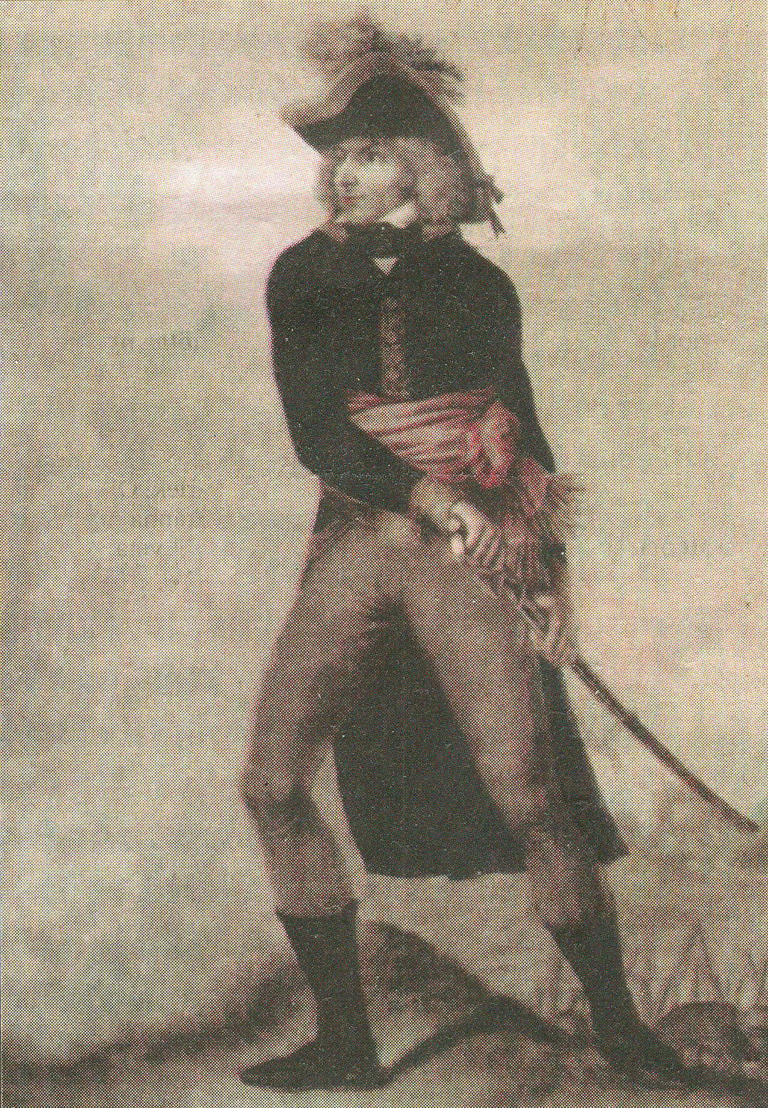 Charles XIV John of Sweden and Norway in his days as a French field marshal